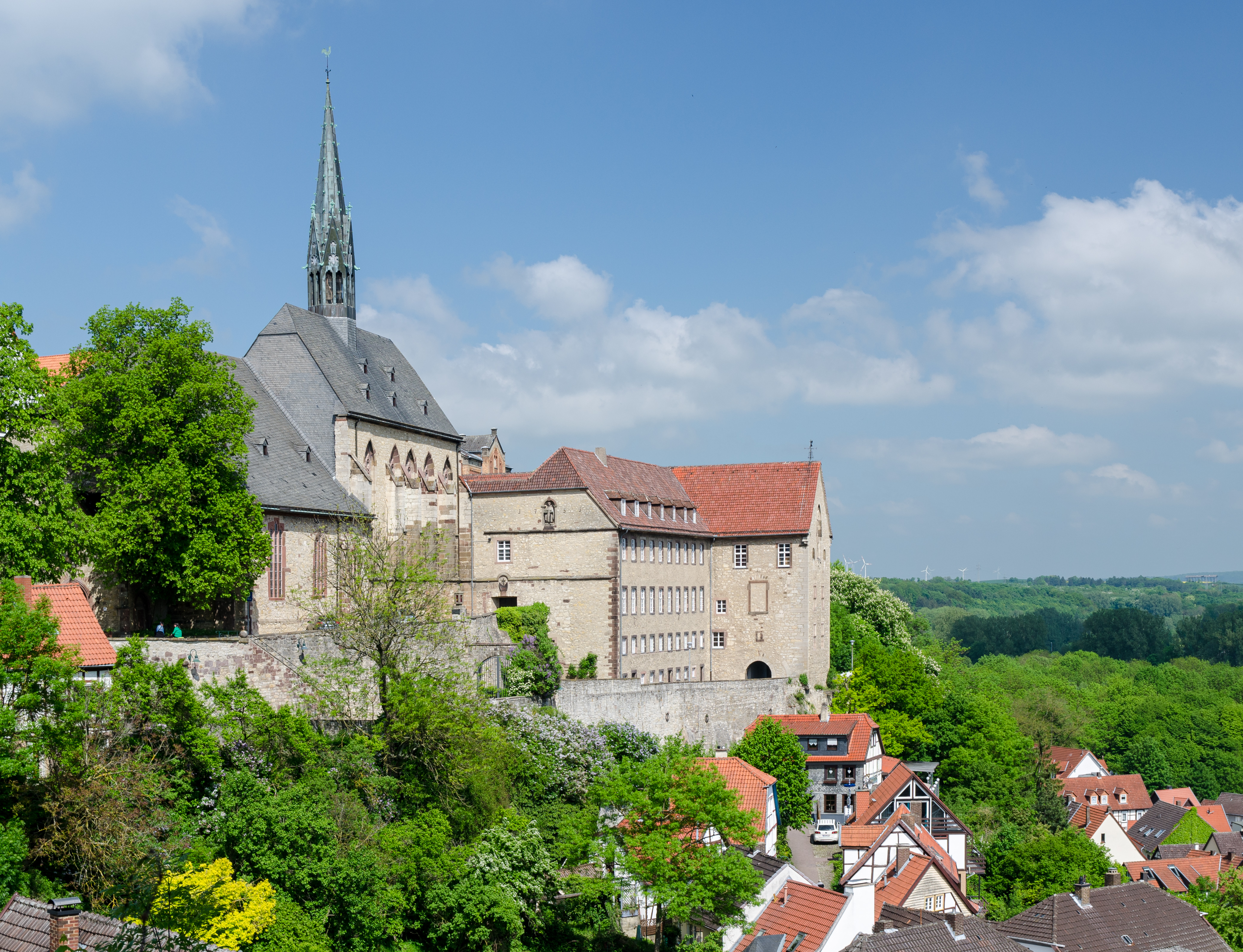 Warburg view over Protestant Old Town Church and grammar school "Marianum"